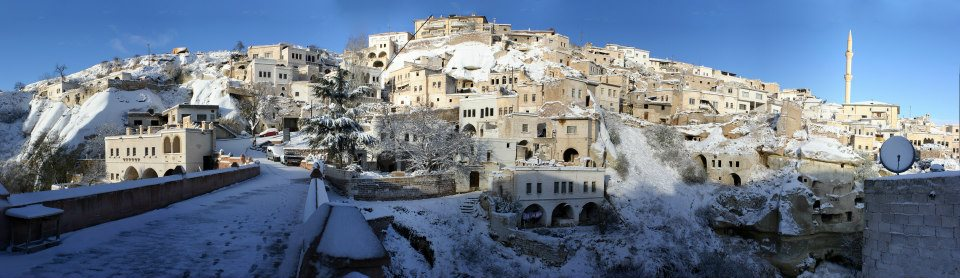 Ibrahimpasa koyu (Babayan) Cappadocia